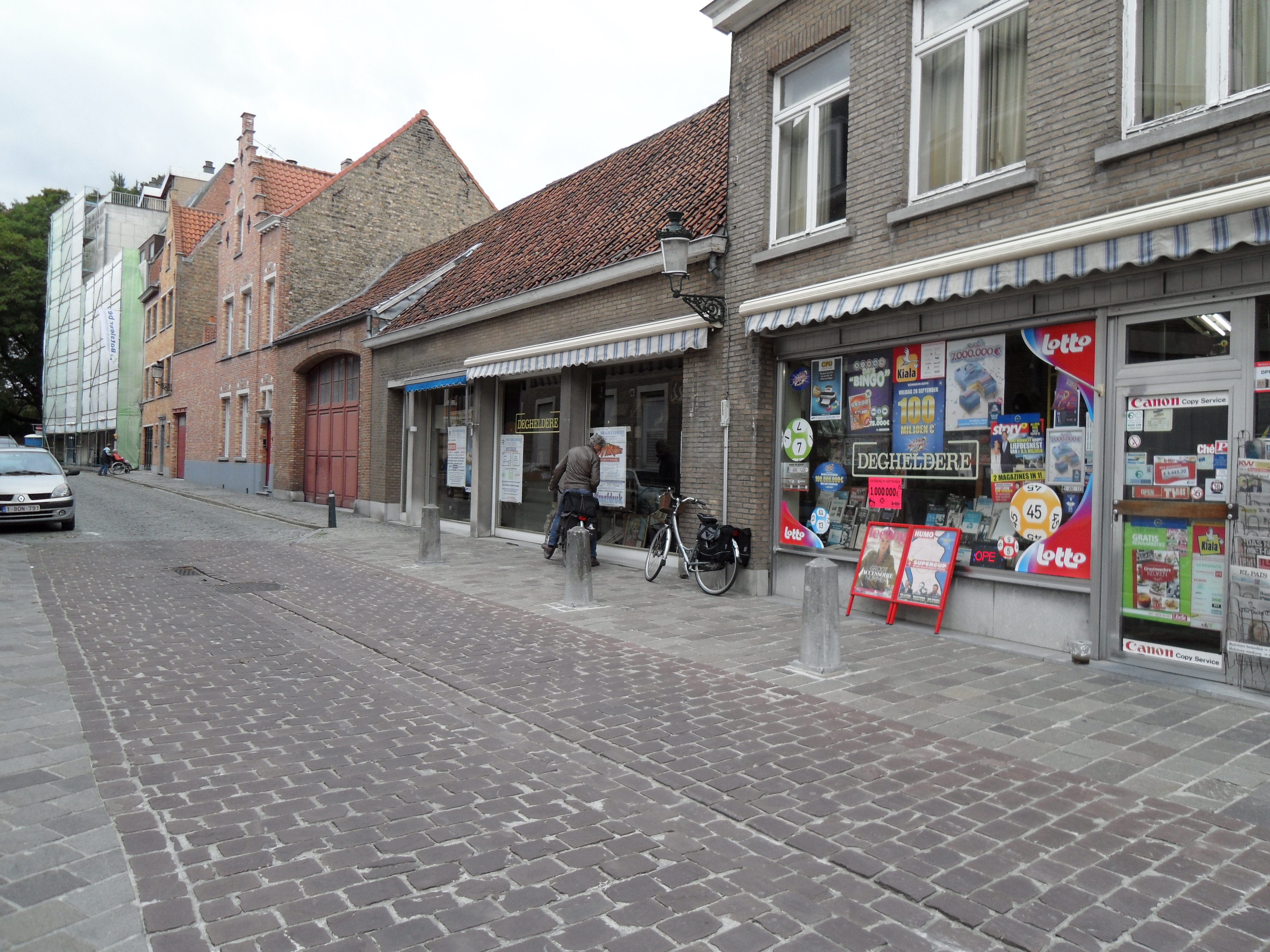 Leemputstraat in Bruges